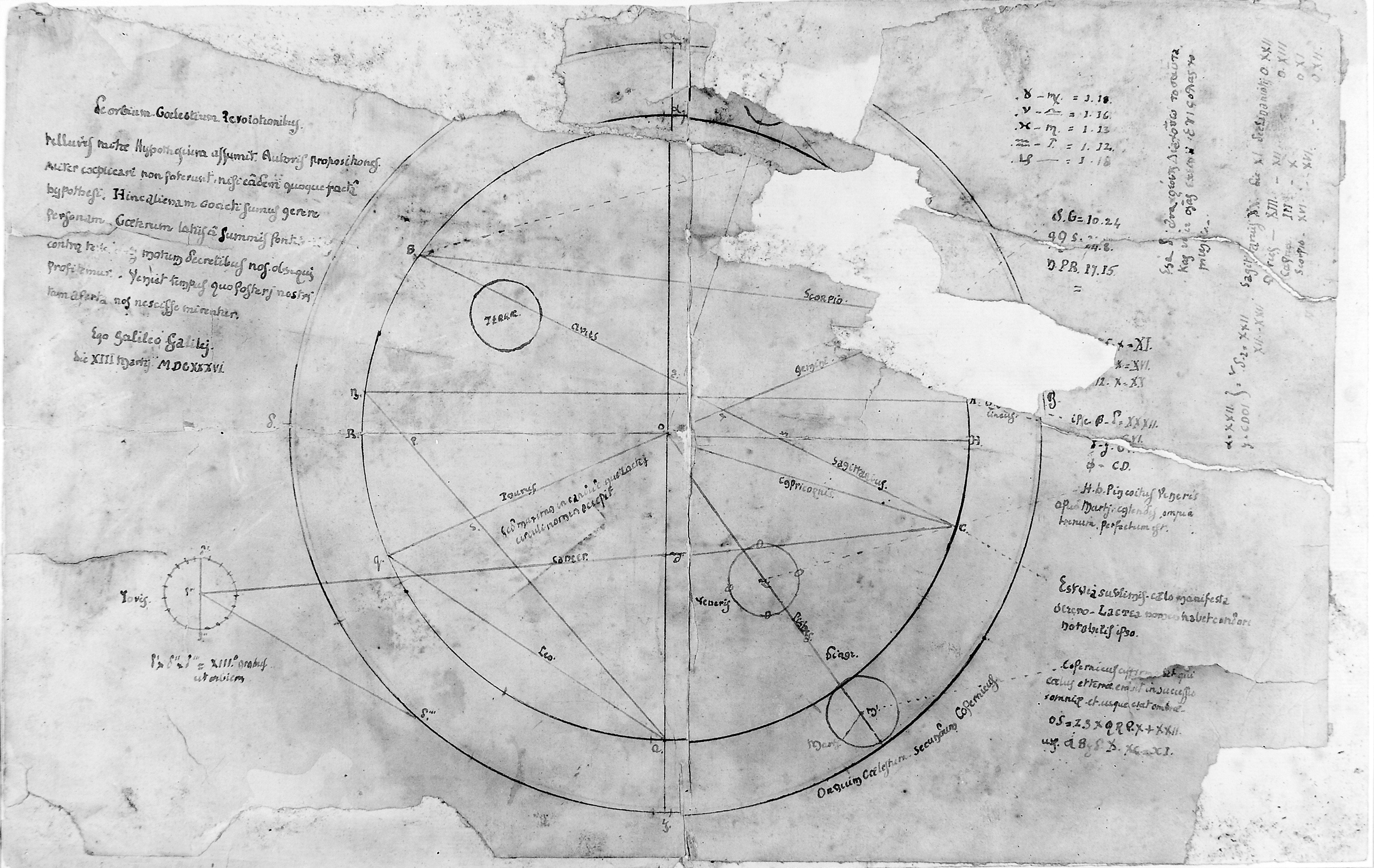 Chart by Galileo purchased in Florence, April 1931 - showing position of earth and planets with calculations and notes round the sides. Archives & Manuscripts Keywords: Galilei, Galileo; Astronomy